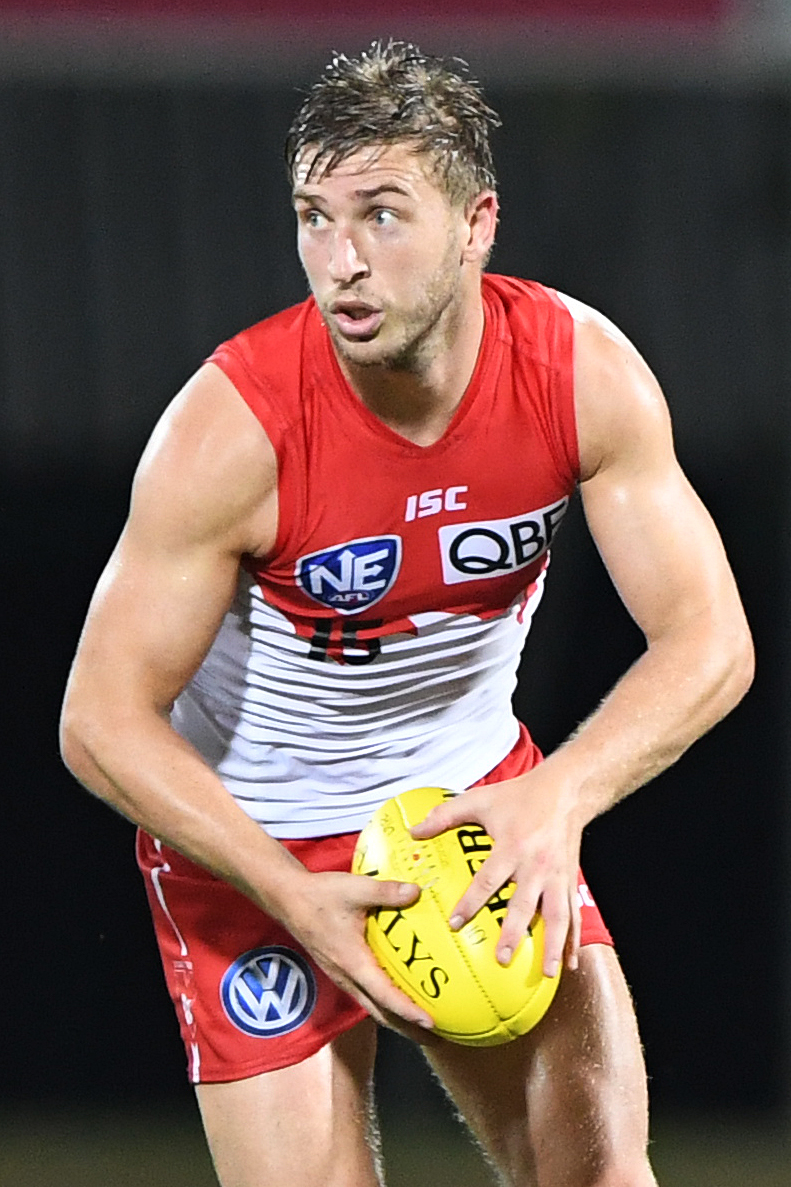 Kieren Jack of Sydney during the 2019 NEAFL round 14 match between NT Thunder and Sydney at TIO Stadium on Saturday, 6 July 2019 in Darwin, Northern Territory.